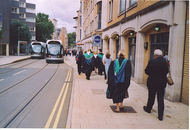 Goldsmith Street, Nottingham. Town and Gown in the Nottingham Trent university quarter, just north-west of the Old Market Square. City trams on the Hucknall route pass graduation parties.